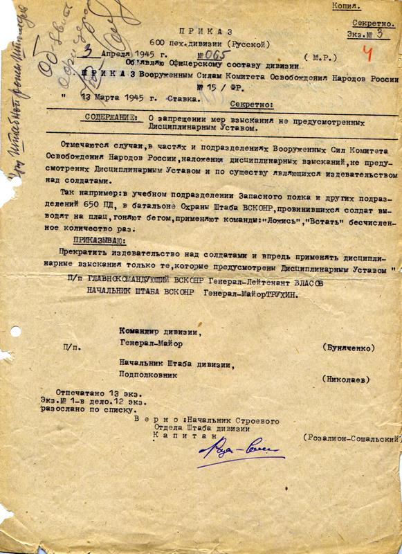 Order of general Andrey Vlasov about Dedovshchina in Russian Liberation Army (Nazi Germany, 03 April 1945)